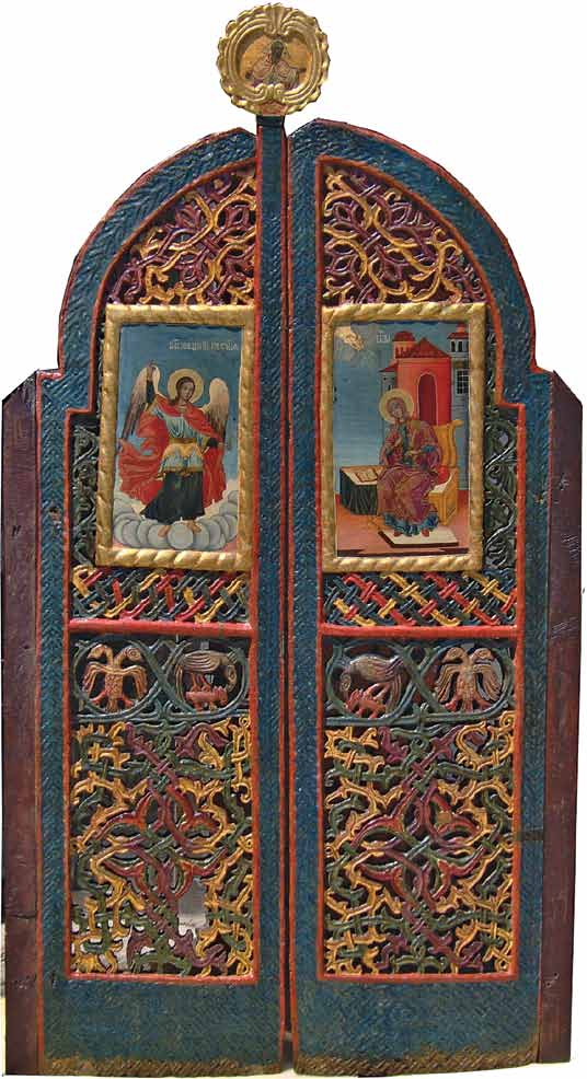 Royal doors from Saint Nicholas Church in Kratovo, 16th - 17th Century